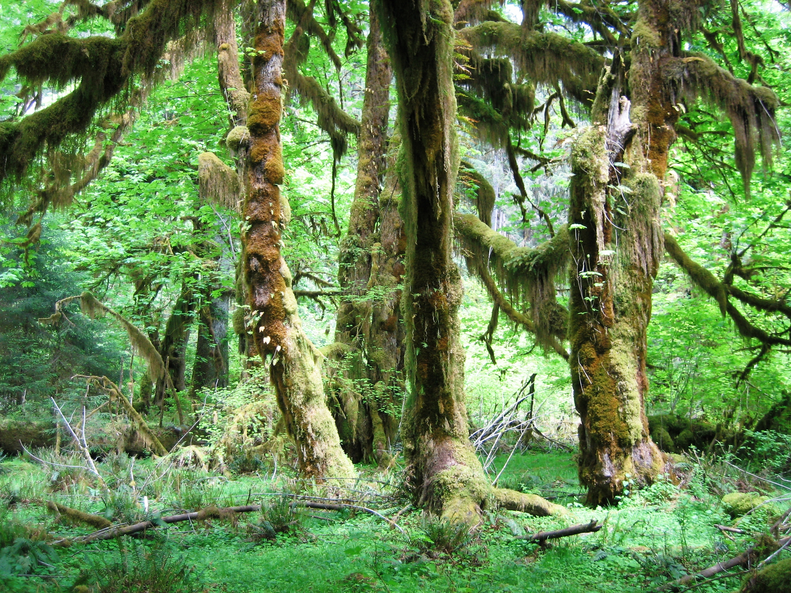 The Hoh National Rainforest, a temperate rainforest, in the Olympic Mountains, Washington.